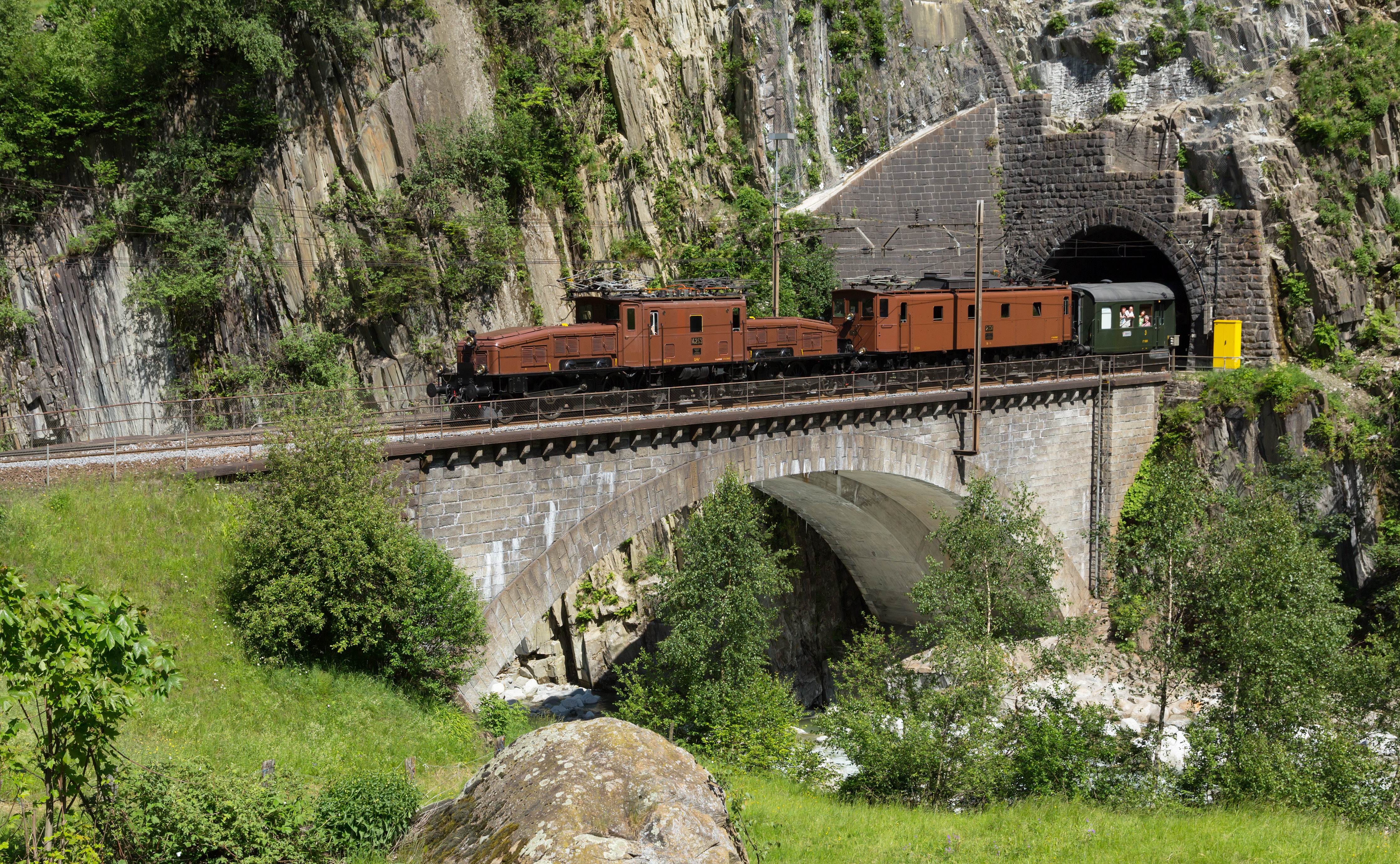 SBB Ce 6/8 II 14253 and Be 4/7 12504 cross the lower Wattingen bridge near Wattingen, Switzerland.